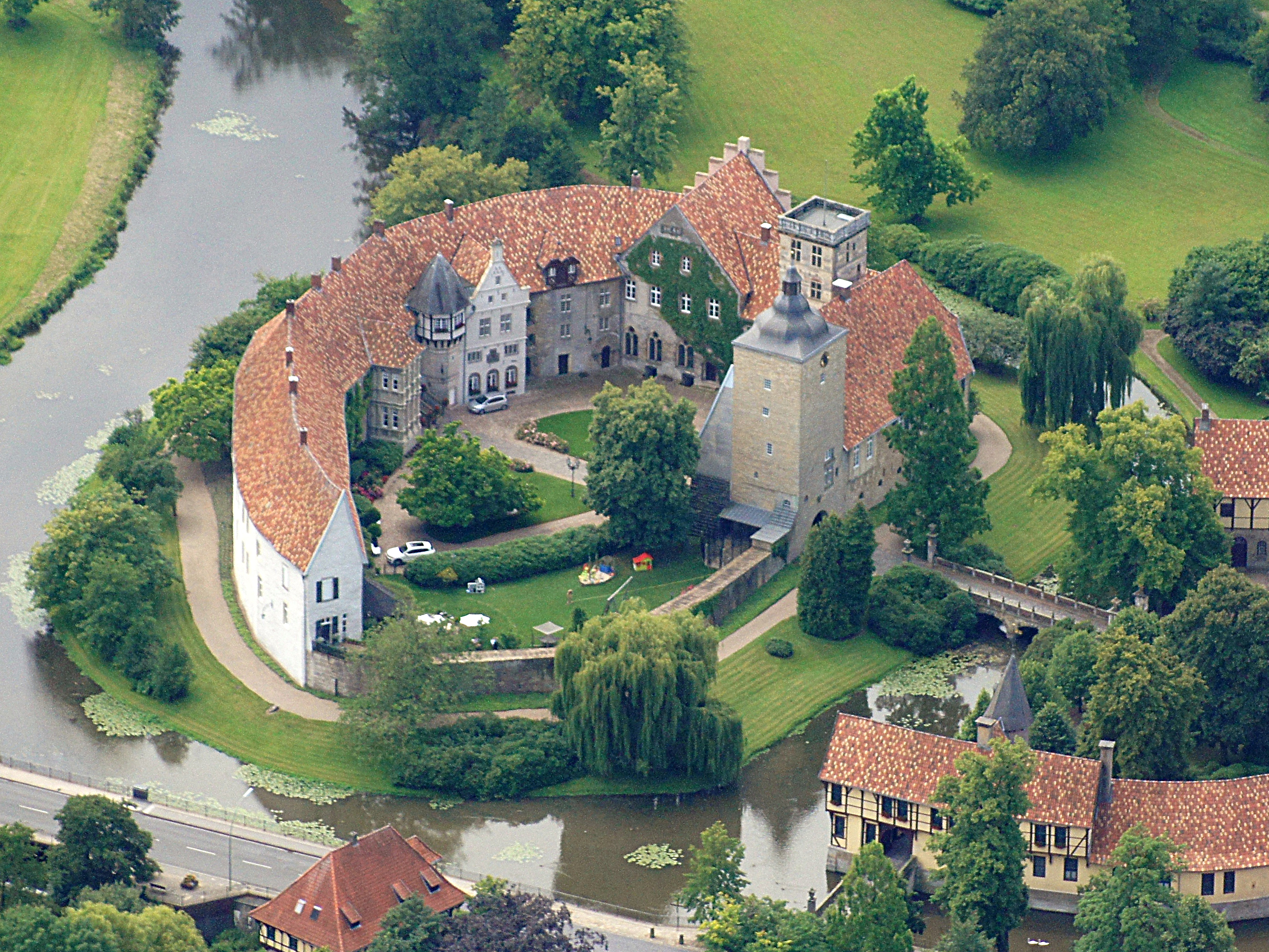 Schloss Burgsteinfurt is a castle in Steinfurt, district of Steinfurt in North Rhine-Westphalia, Germany.